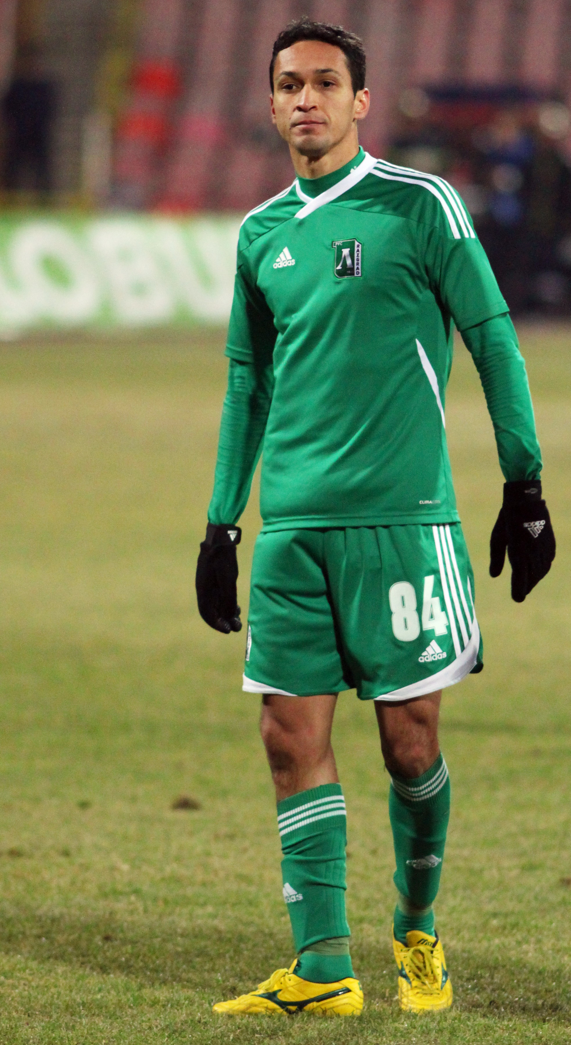 Marcelo Nascimento da Costa (born 24 August 1984 in Santa Cruz do Rio Pardo, Brazil), commonly known as Marcelinho, is a Brazilian footballer who currently plays as a midfielder for Bulgarian club Ludogorets Razgrad